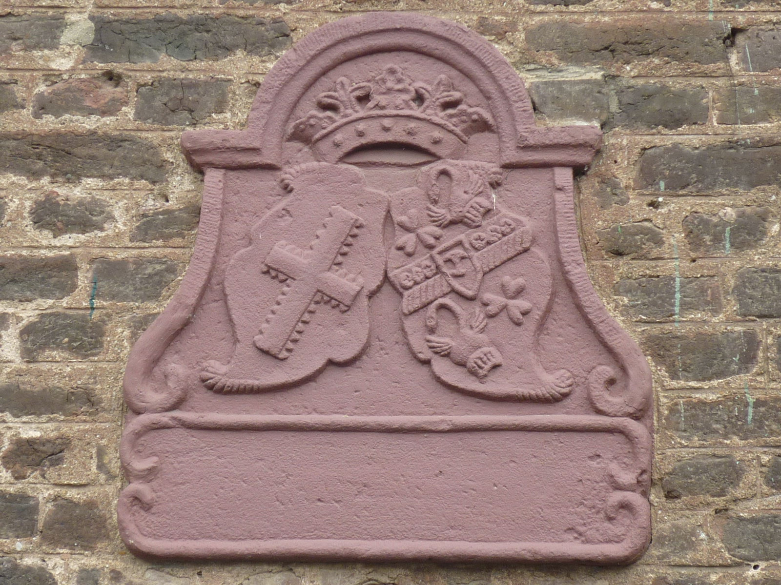 Gymnicher Mühle, Erftstadt-Gymnich - Wappen am Mühlenhaus